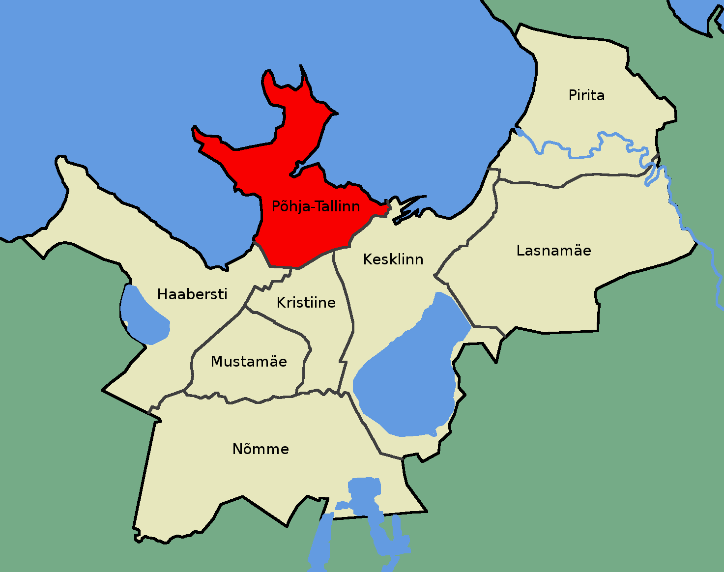 Tallinn (Estonia), the city district of Põhja-Tallinn, with legend